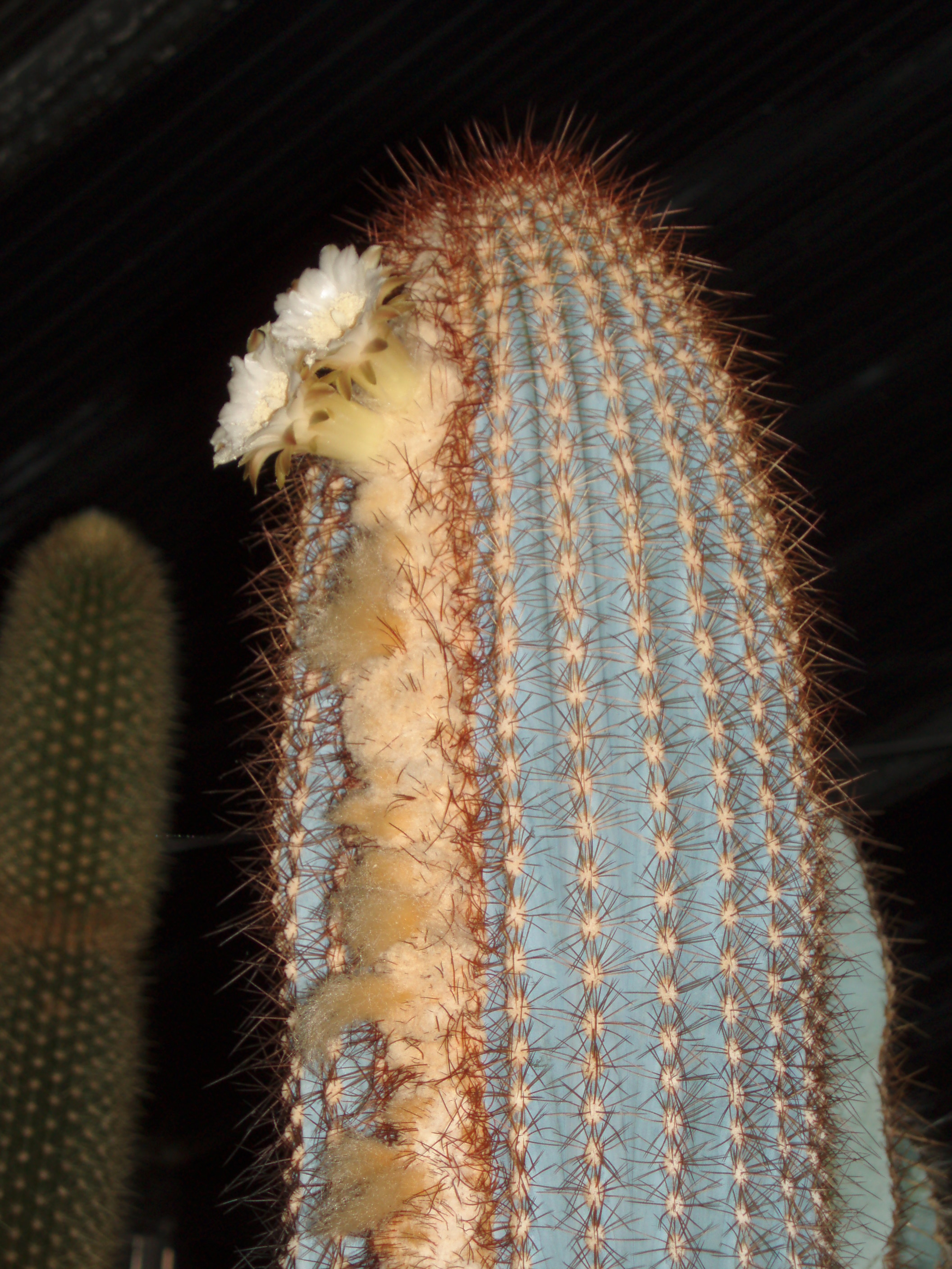 flowering plant from type locality, Bahia, Brasil